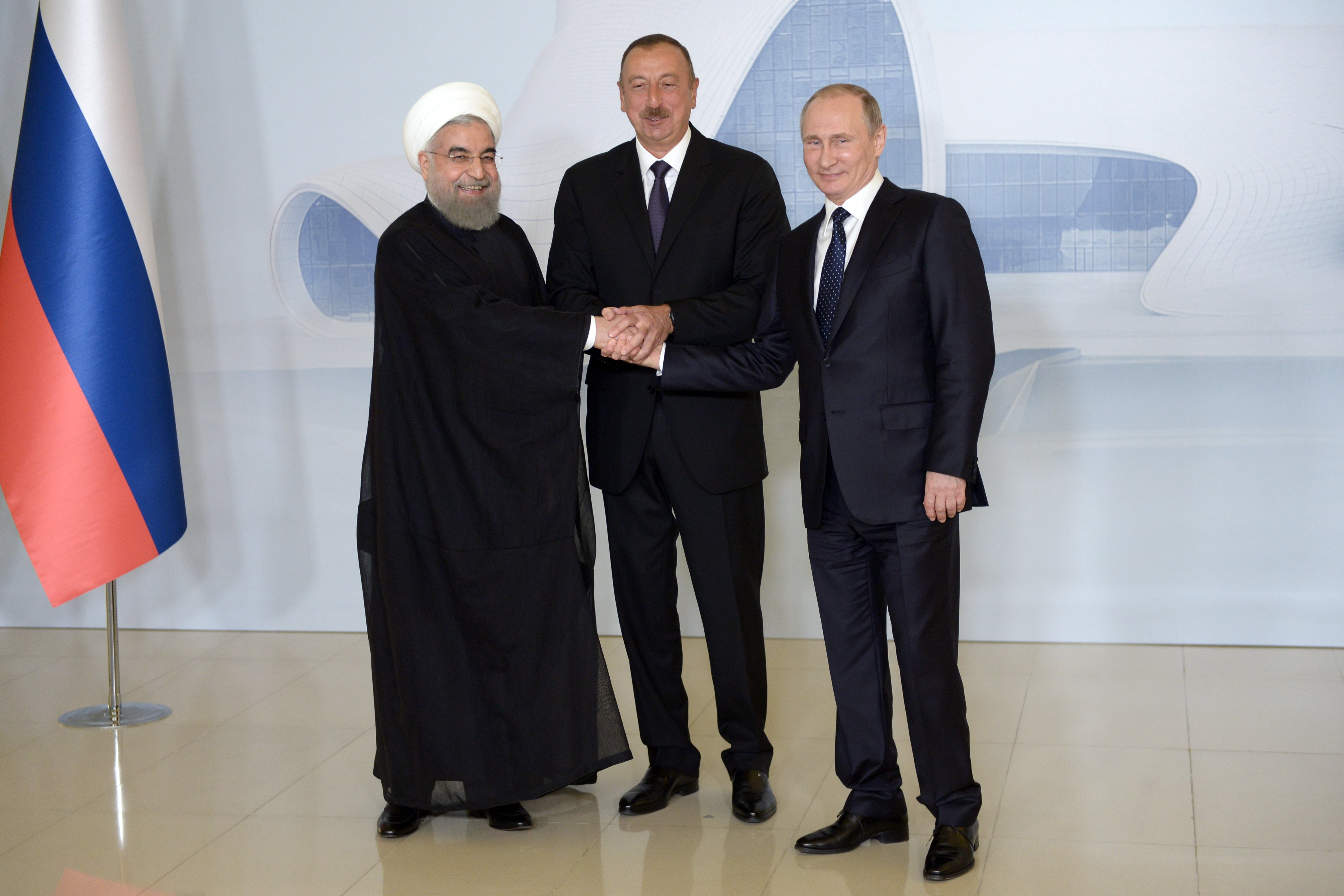 Before the start of a trilateral meeting in Baku, Azerbaijan. President of Russia Vladimir Putin with President of Azerbaijan Ilham Aliyev (centre) and President of Iran Hassan Rouhani.